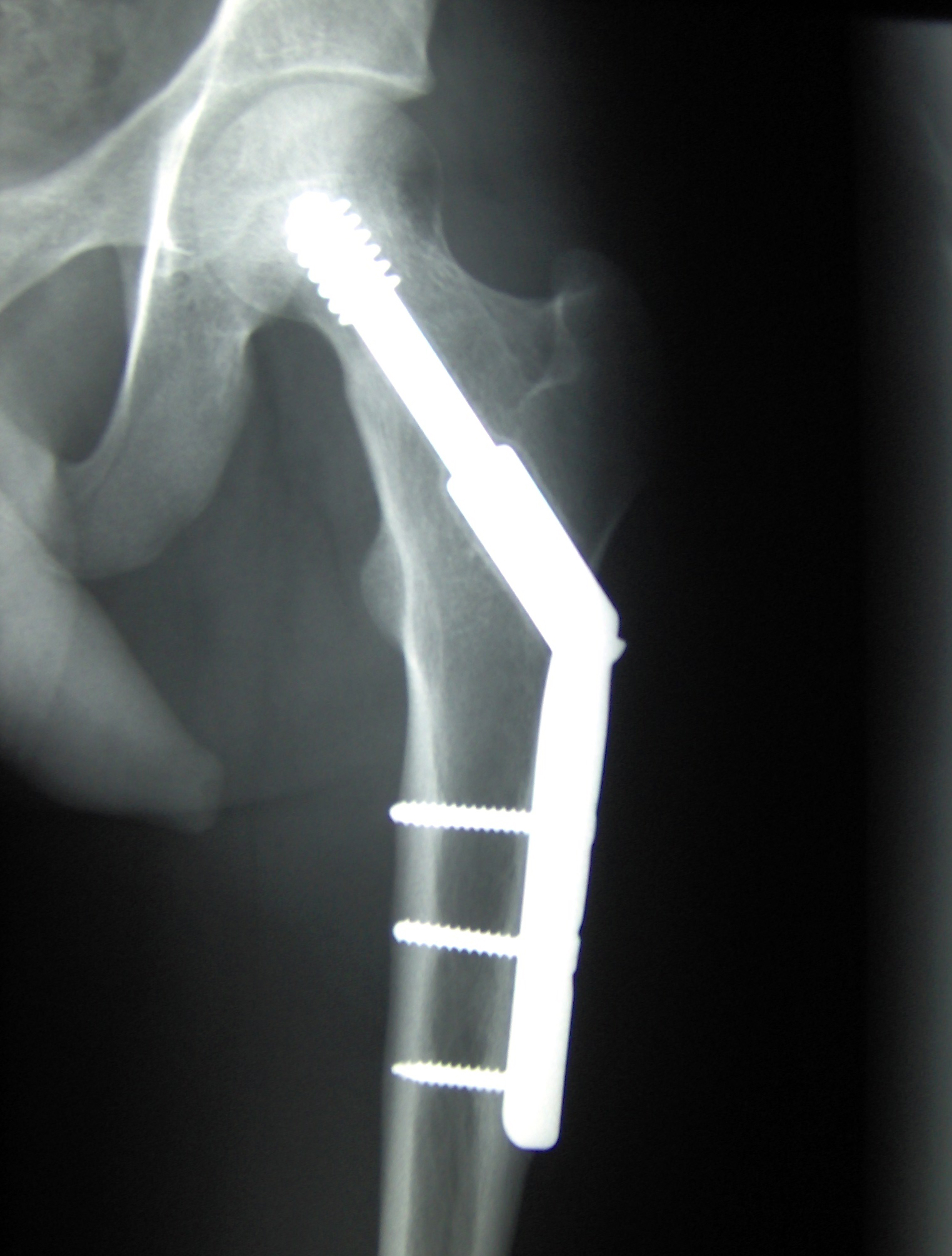 X-ray image of my own hip, with orthopedic implant on femur; approximately a year and a half after surgery